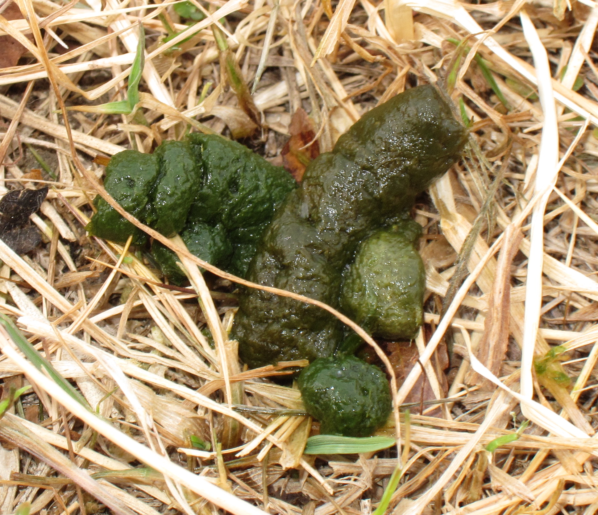 wet pellets of a eurasian wigeon bird (hidori-gamo) at a river (saka-gawa) in chiba pref., japan.